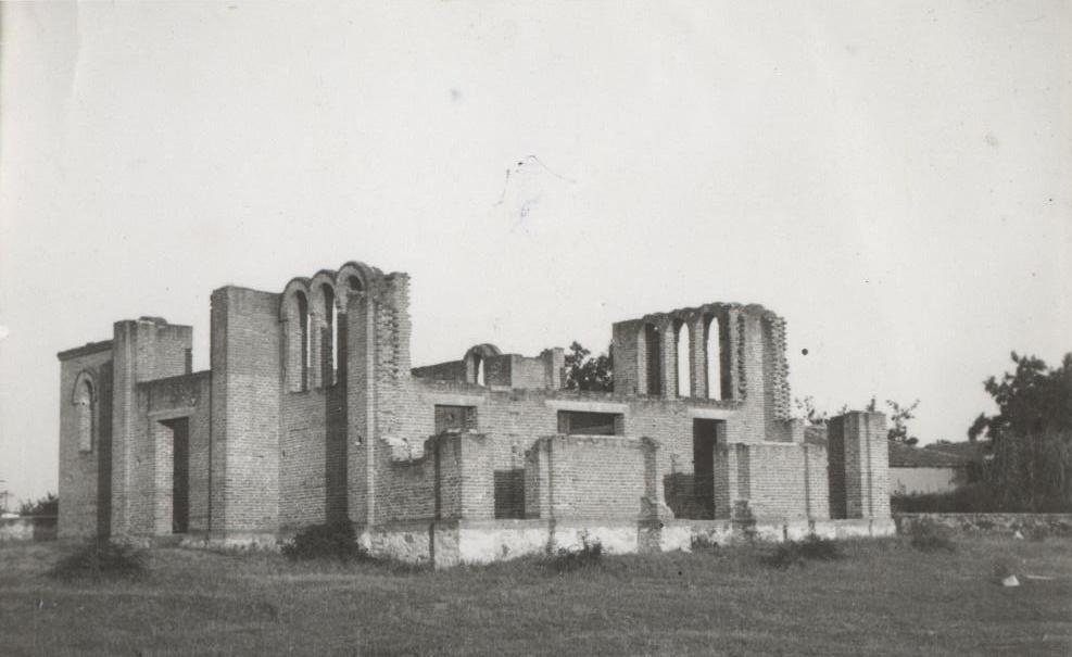 The building of the church of the village Egiros, near Komotini.